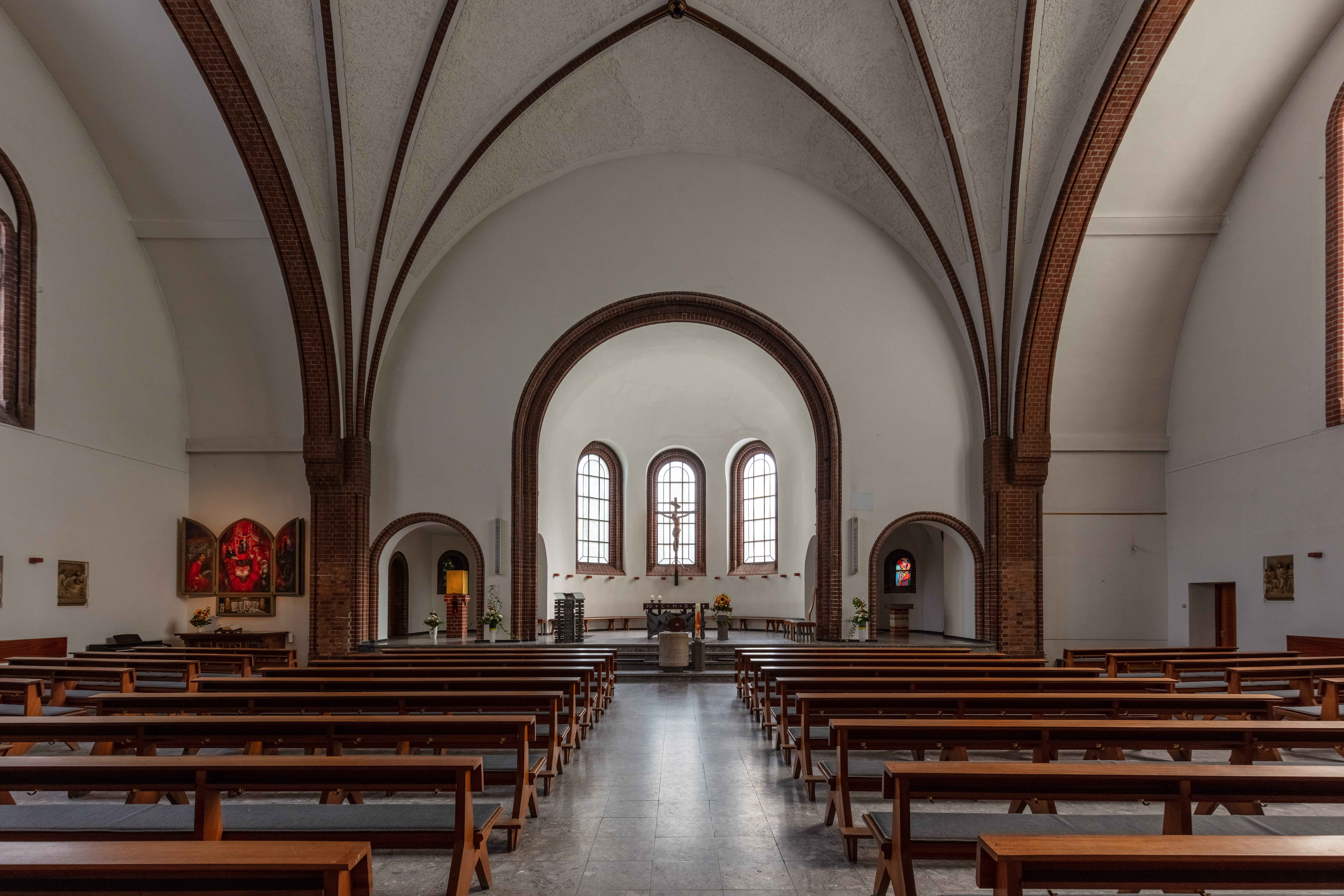 St Henry church, Kiel, Germany